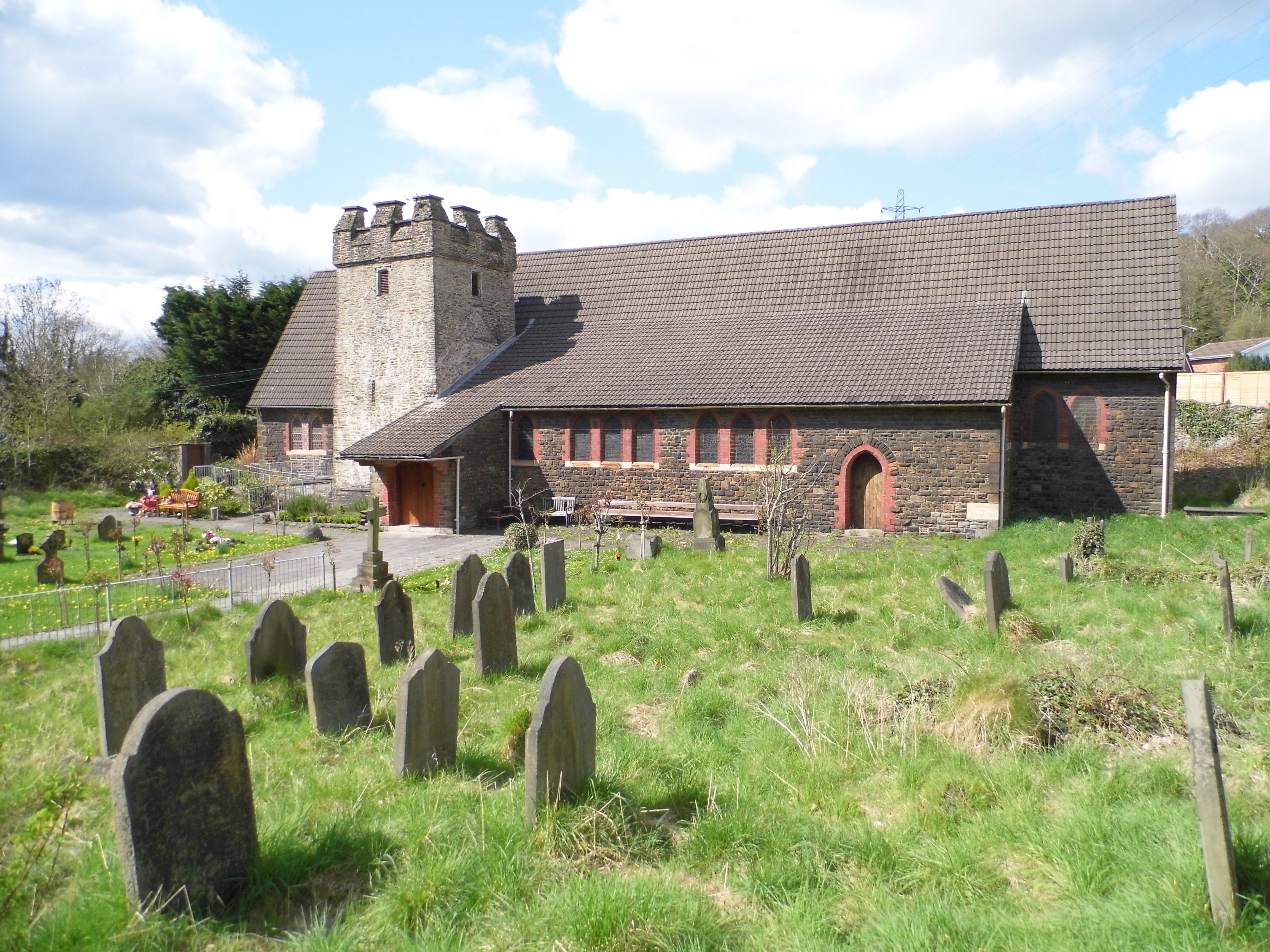 St Mary's Church and churchyard, 2013